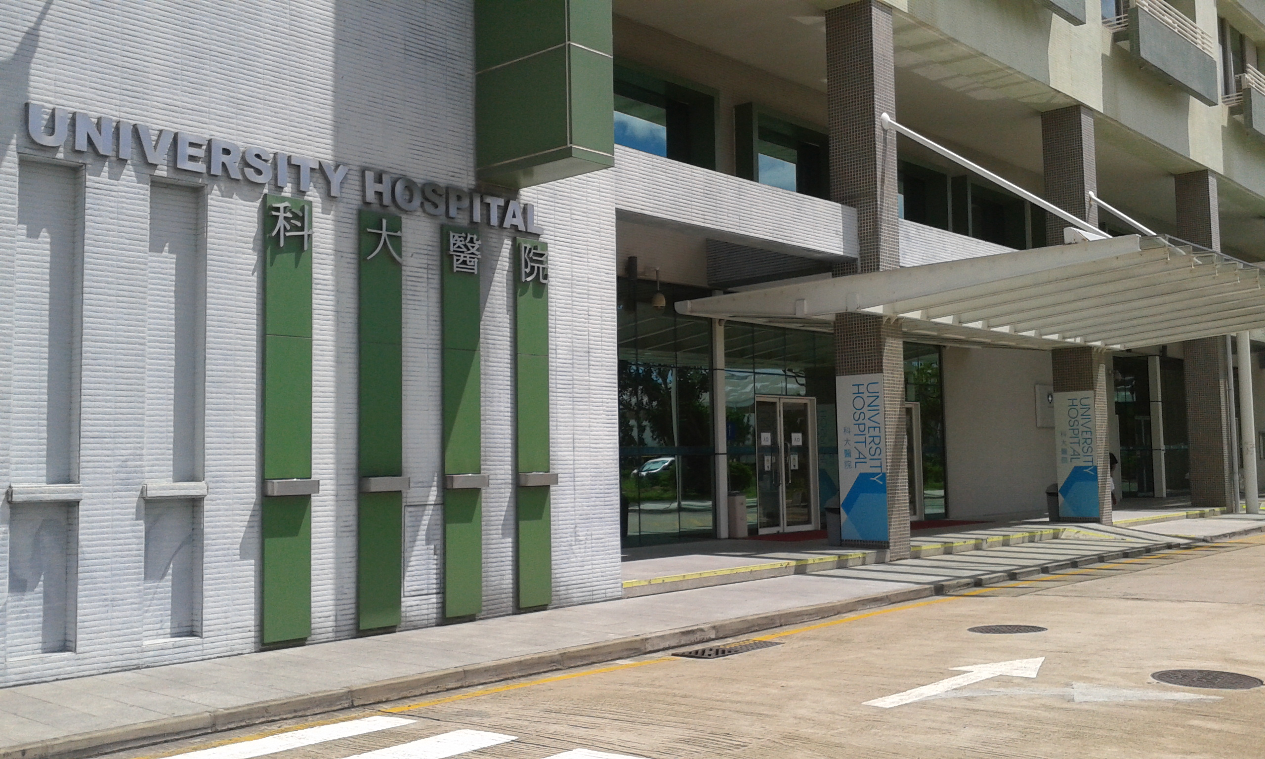 University Hospital, UCTM